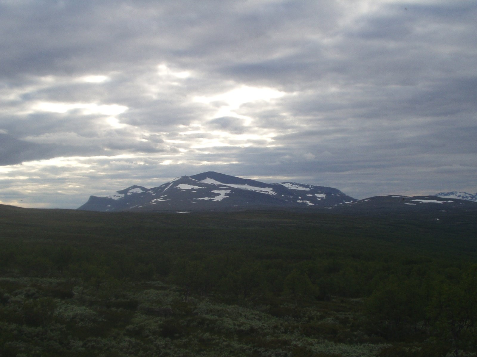 Helagsfjället (Helags Mountain) in Härjedalen, Sweden, in summer.